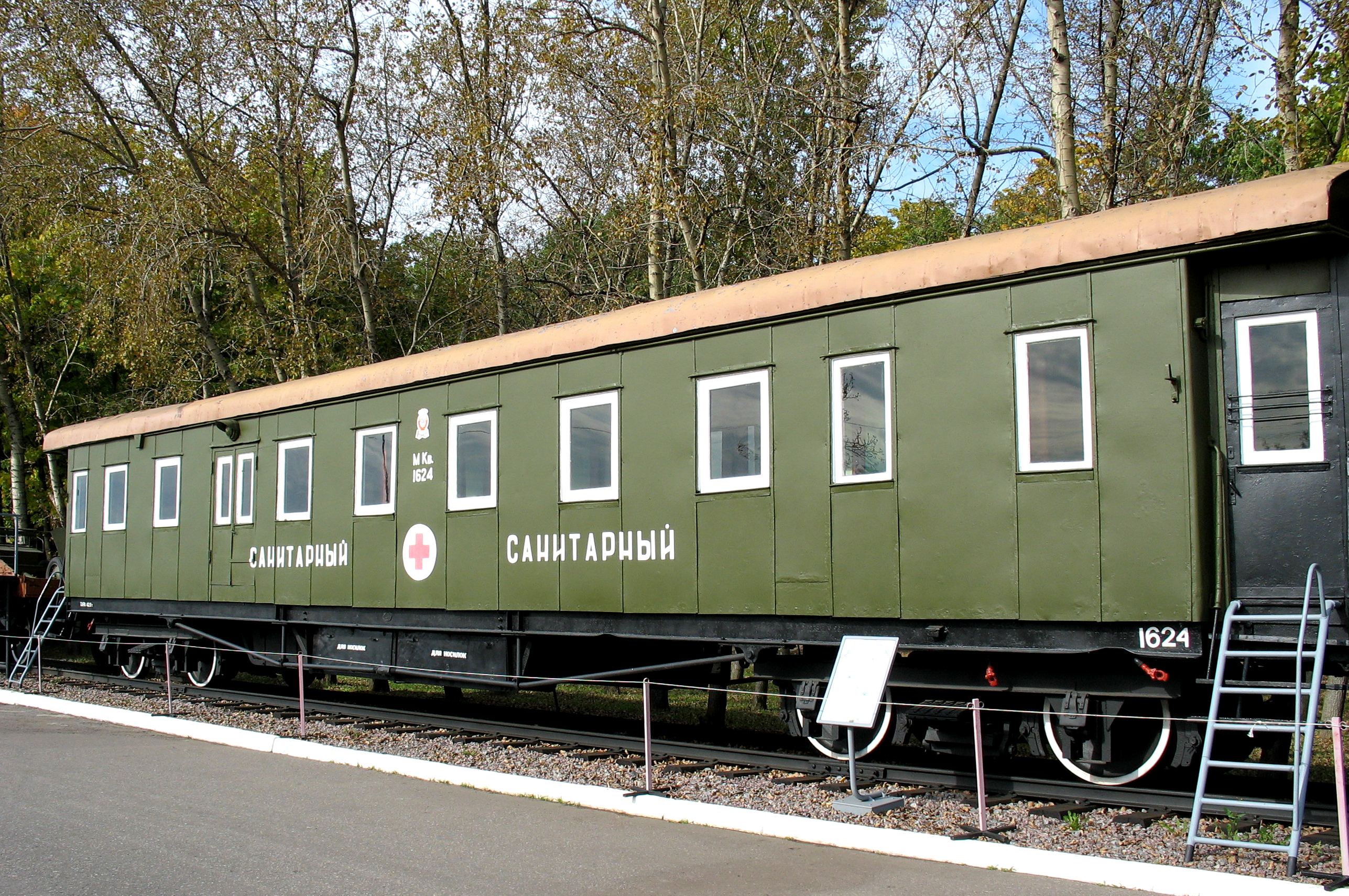 Hospital car